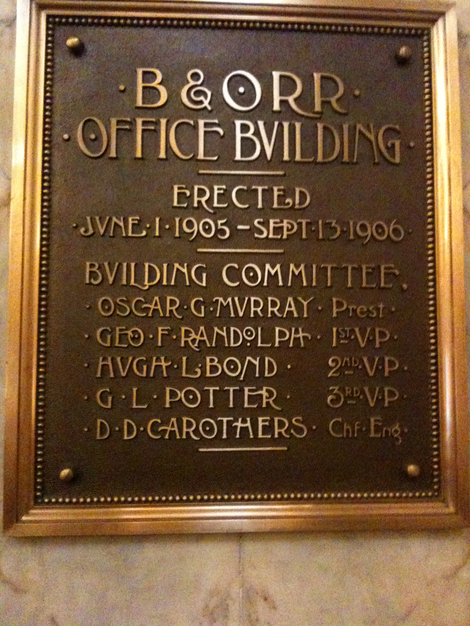 Oscar G. Murray was the president of the B&O Railroad, when their new Headquarters Building opened in 1906.